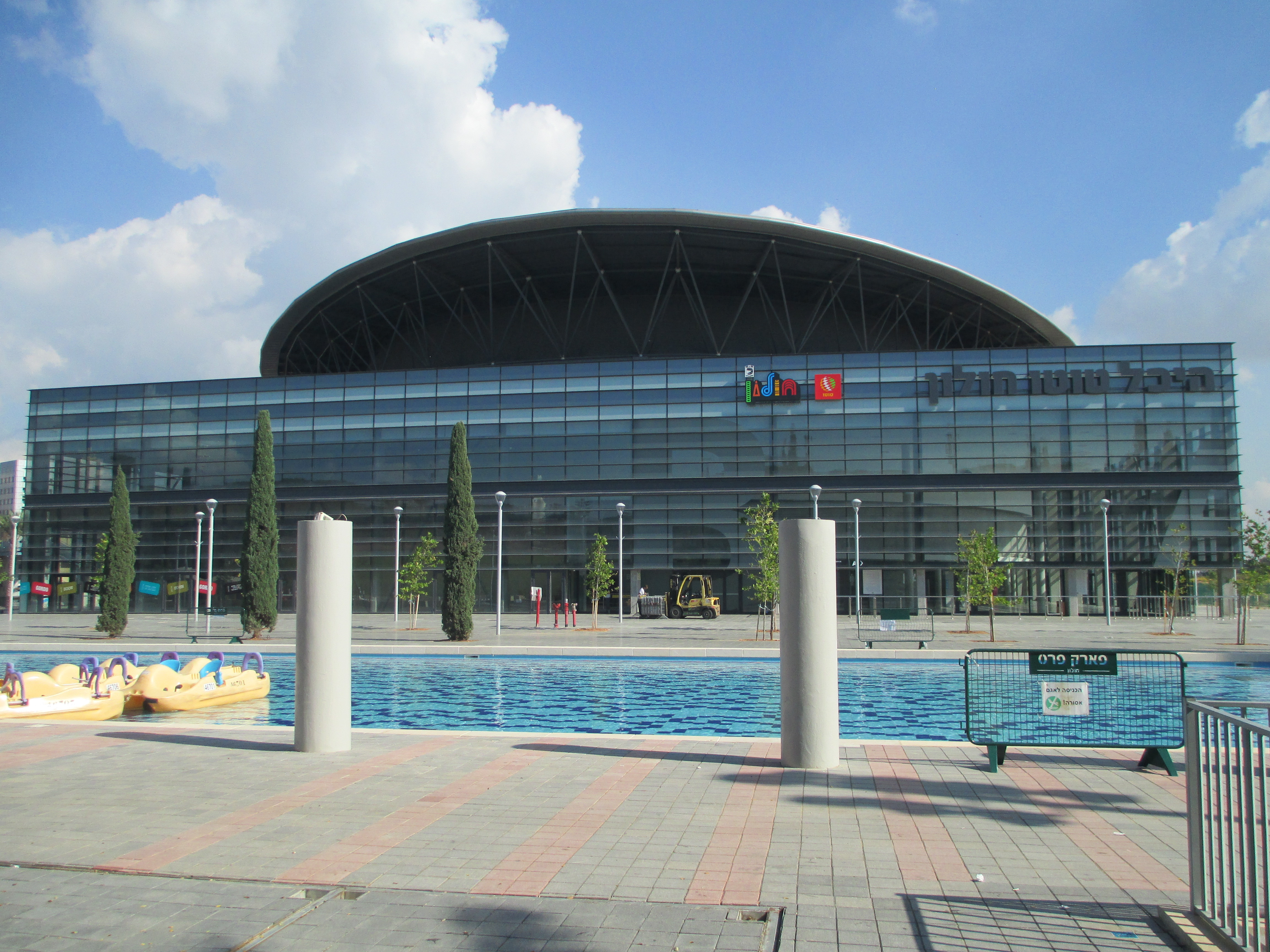 Holon Toto Hall in Peres park